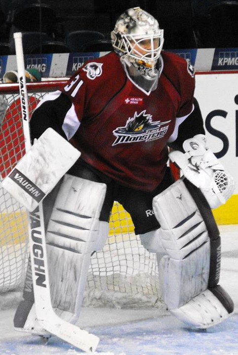 Calvin Pickard, Taken 11/30/2013 @ Copps Coliseum, Hamilton, ON